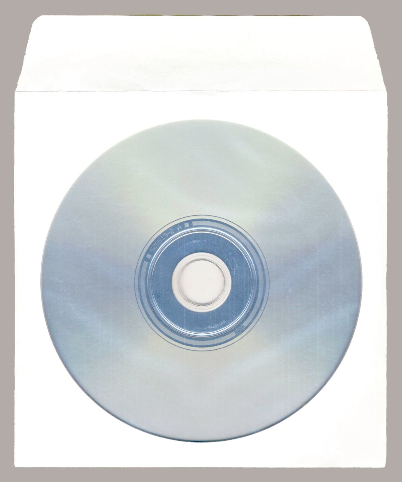 A Paper Sleeve with contain a CD.